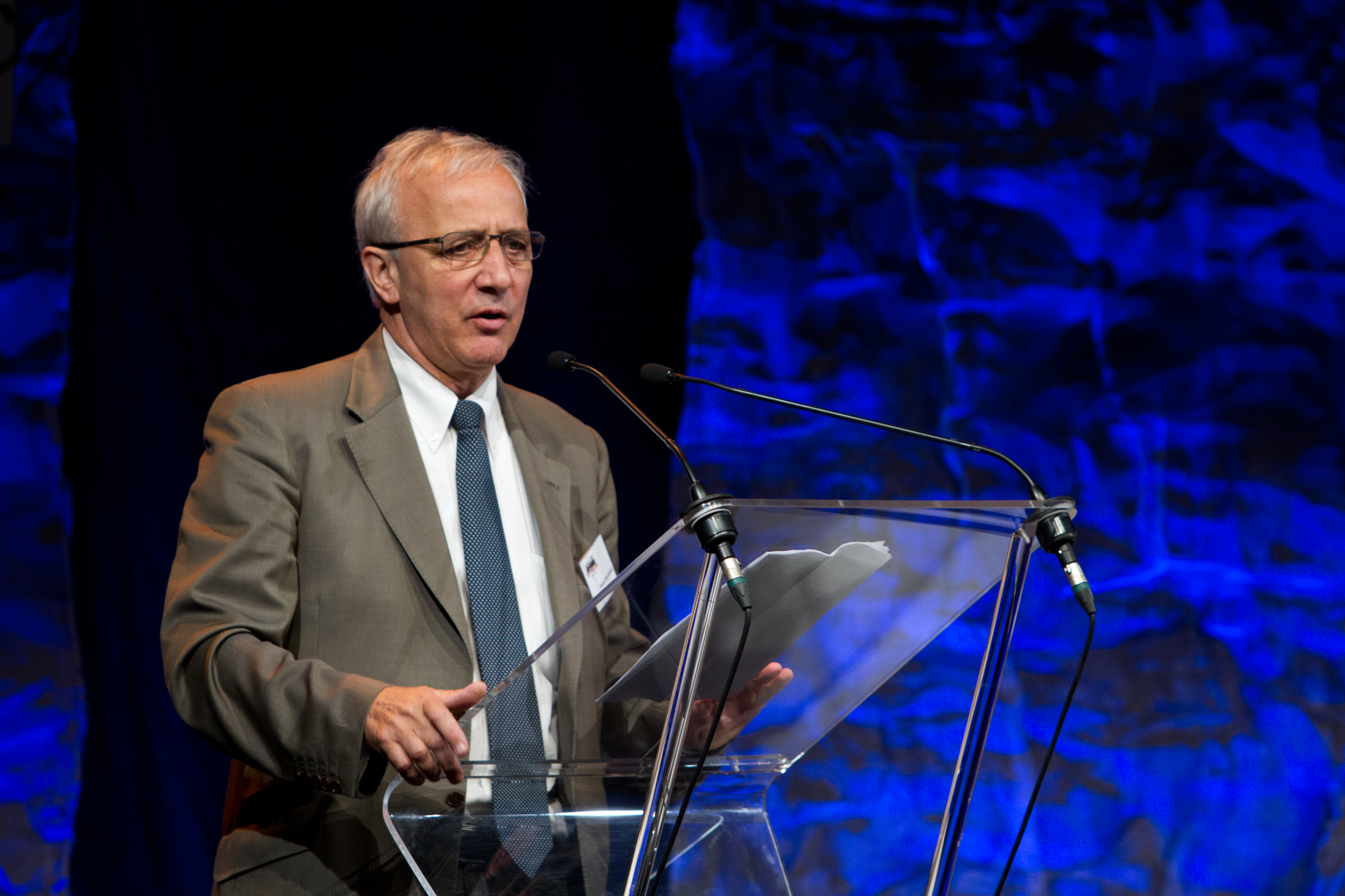 Daniel Delaveau, at the 40th anniversary of the Rennes campus of Supélec.